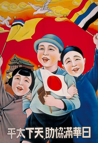 Manchuguo poster advocating co-operation with Japanese